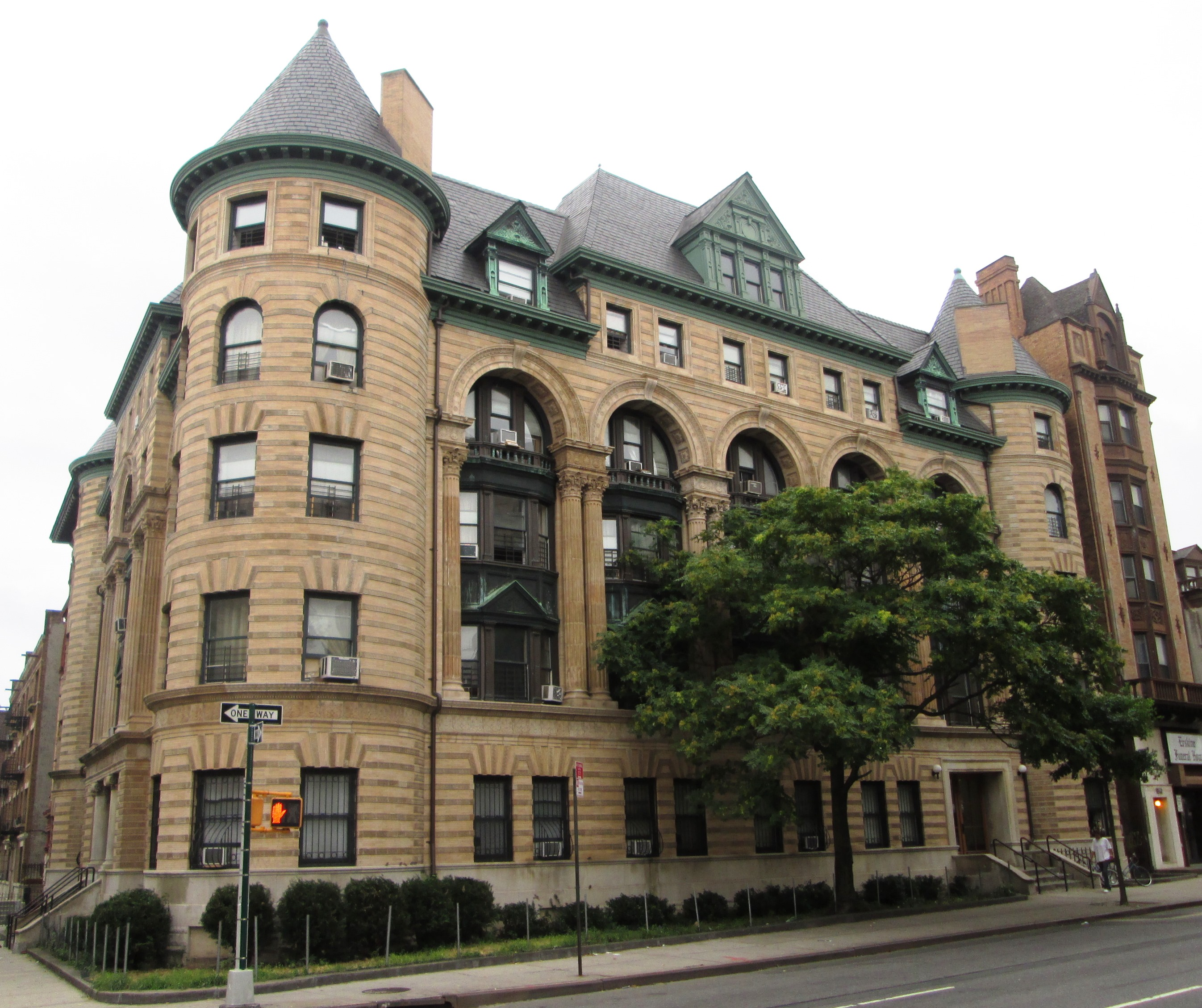 The Imperial Apartments at 1198 Pacific Street and 1327-39 Bedford Avenue on Grant Square in the Crown Heights neighborhood of Brooklyn, New York City was built in 1892 and was designed by Montrose W. Morris in the French Renaissance Revival style, featuring Corinthian terra-cotta columns and paired arches. The building was designated a NYC landmark in 1986, and was restored in 2006. The original very large apartments have now been sub-divided. The building is located in the Crown Heights North Historic District. (Sources: Guide to NYC Landmarks (4th ed.), AIA Guide to NYC (5th ed.) and NYCLPC HD Designation Report)